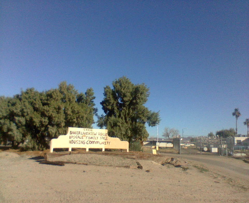 Rental housing on former prison compound